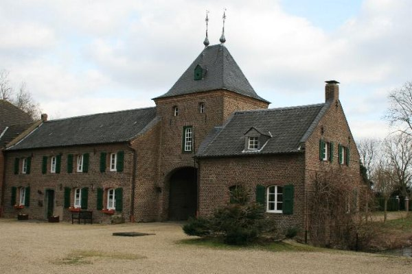 Cultural heritage monument No. 1 in Hückelhoven